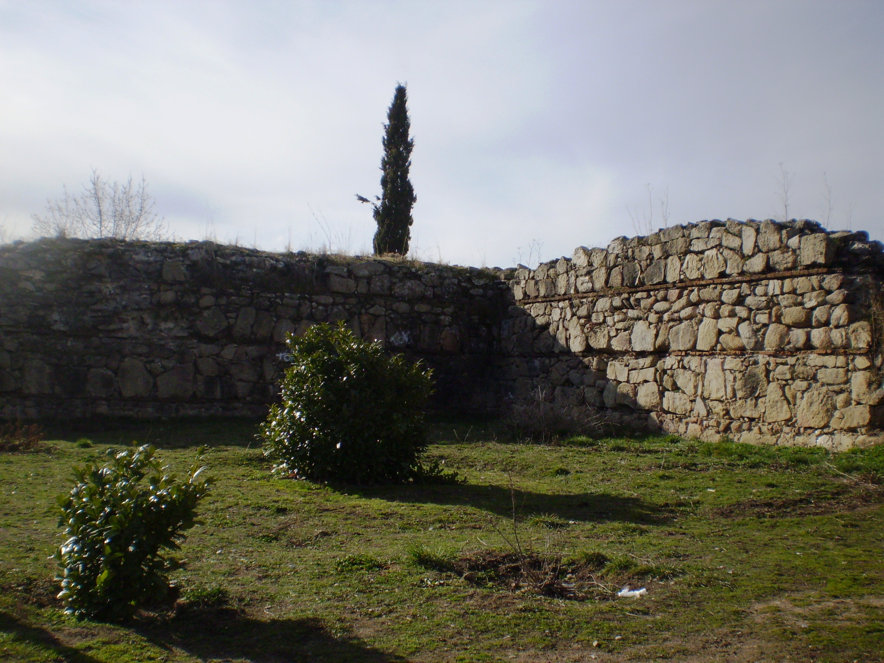 Old castle in Manzanares el Real, Madrid, Spain